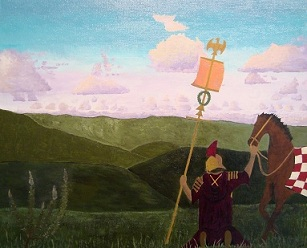 The Last of the Lions - Emporer Majorian returns to Rome following defeat at the hands of the Vandals in Hispania 460 AD.